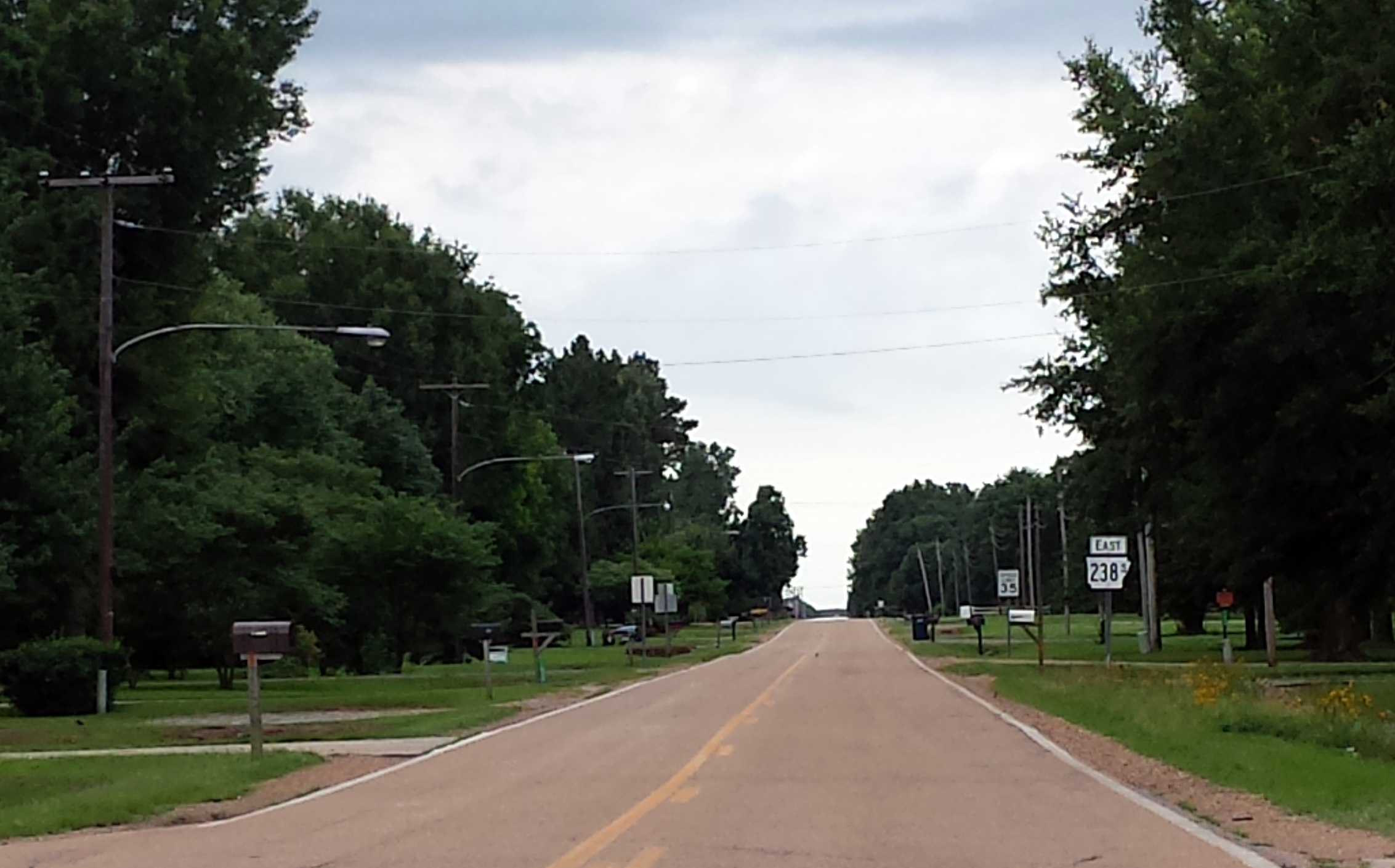 Highway 238S first reassurance shield south of terminus at Highway 238